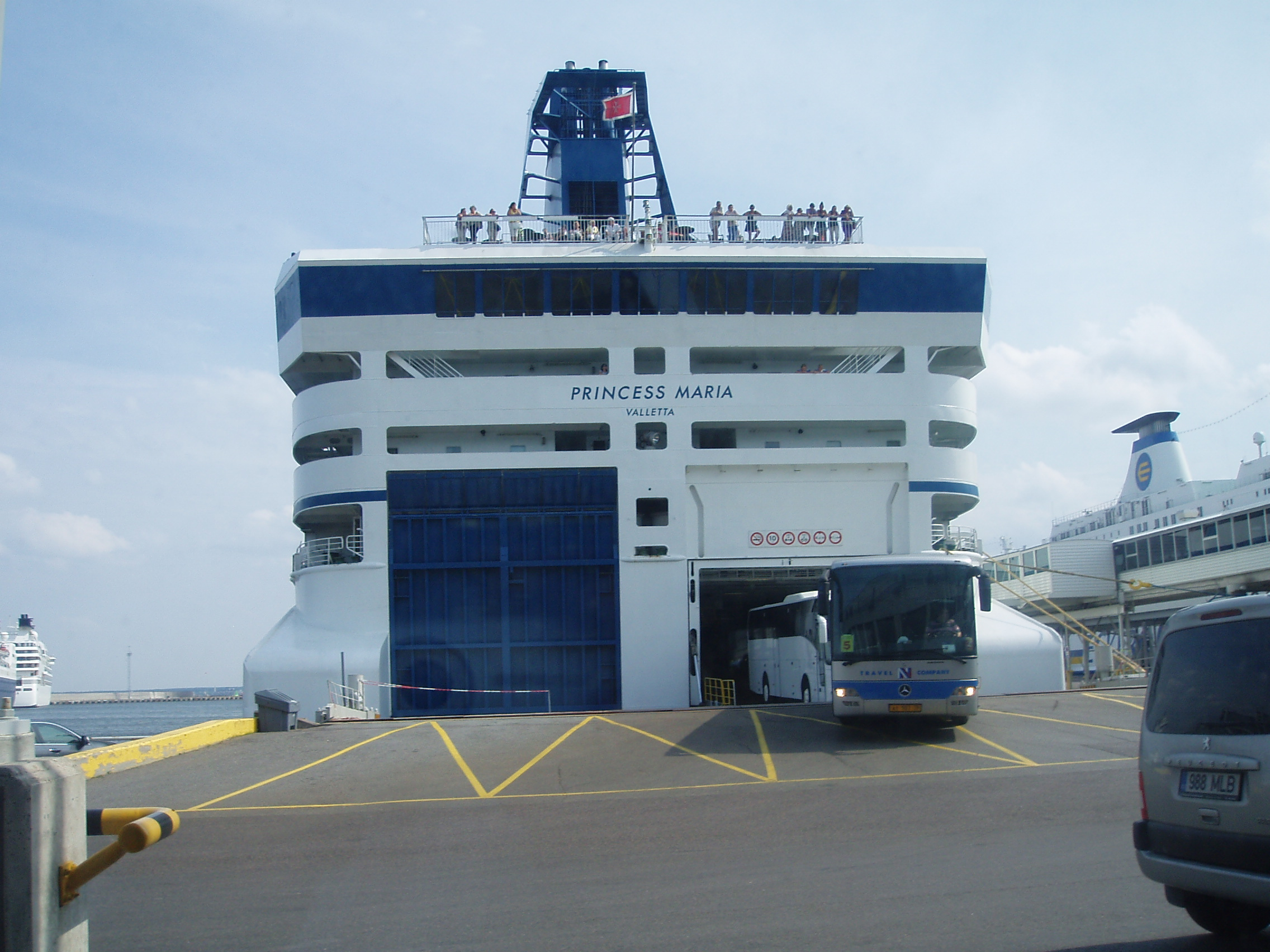 Princess Maria Stern Tallinn 4 August 2010